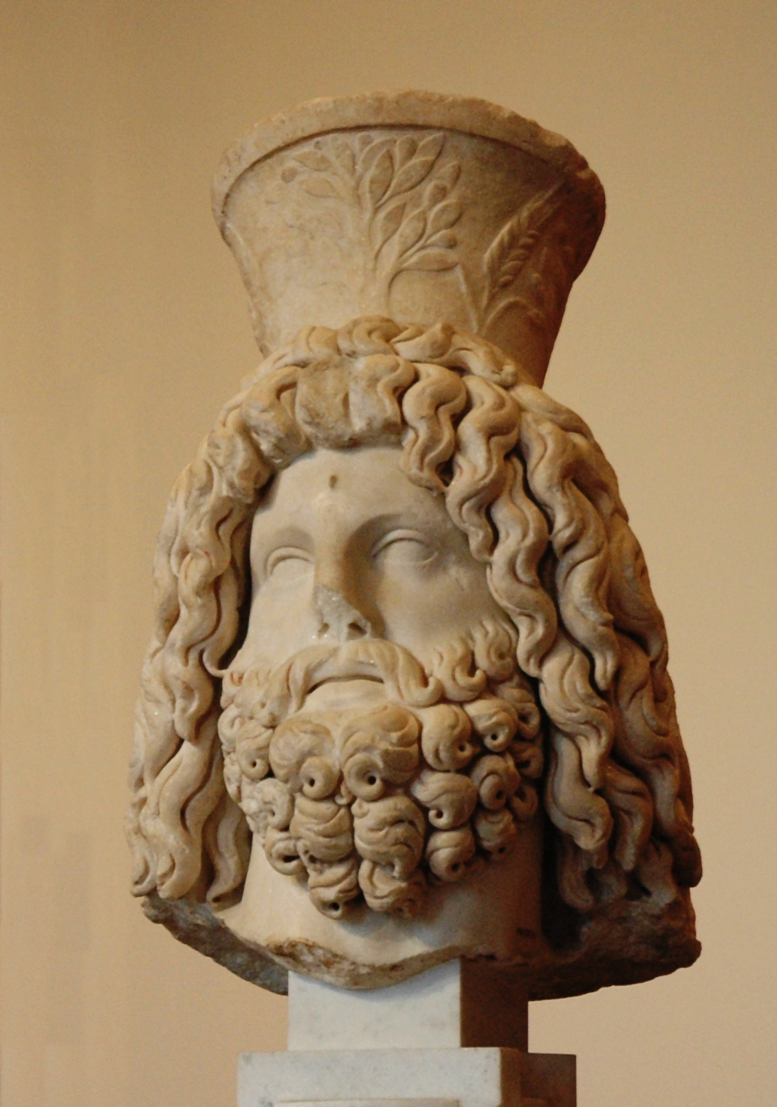 Bust of Serapis. Marble, early 3rd century AD, found in Carthage, Tunisia.